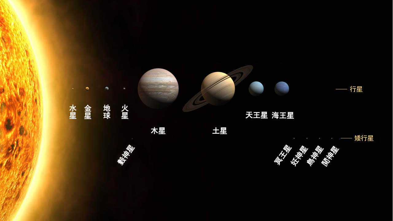 Planets and dwarf planets of the solar system